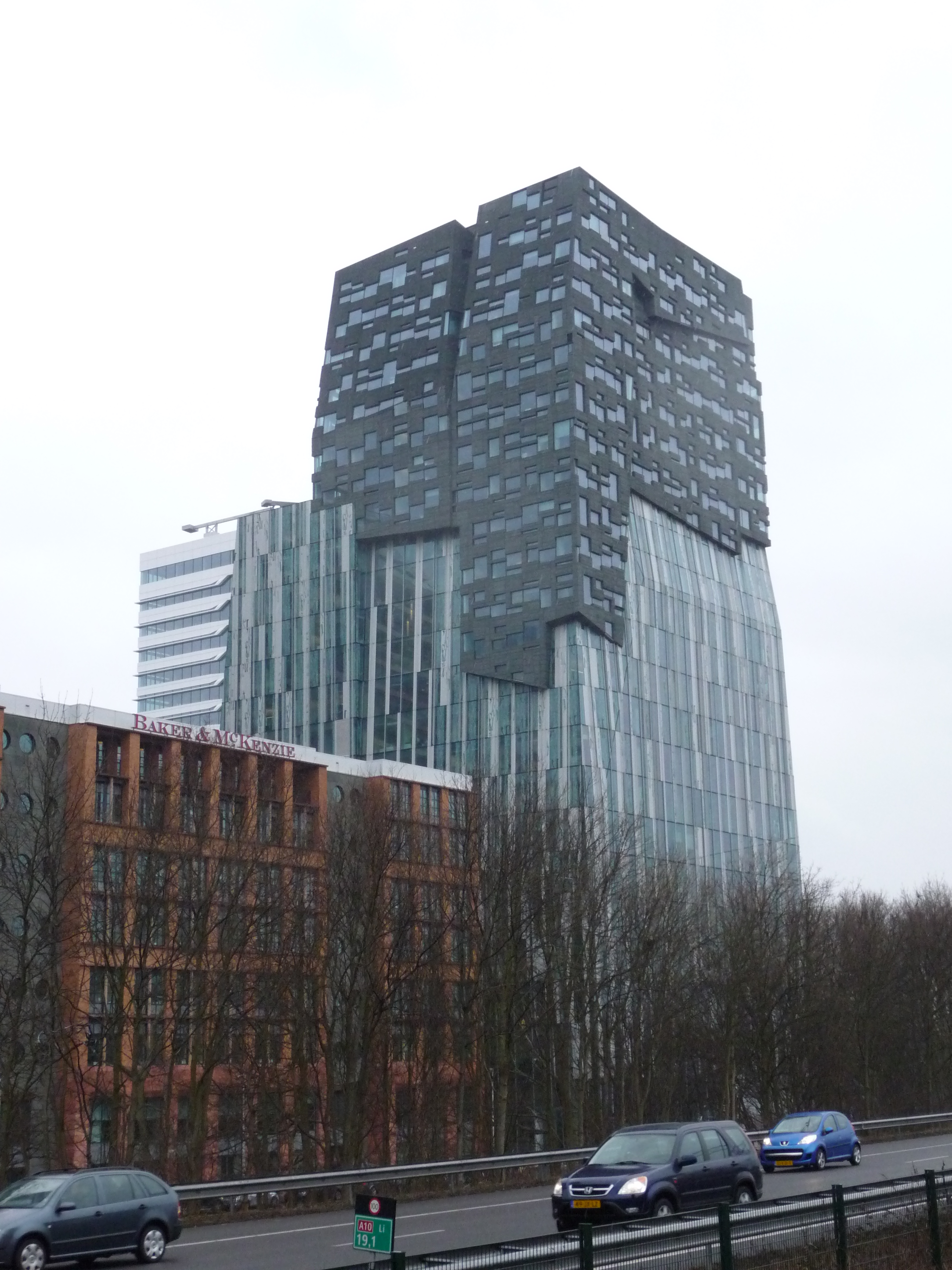 Own work The Rock at the Zuidas in Amsterdam